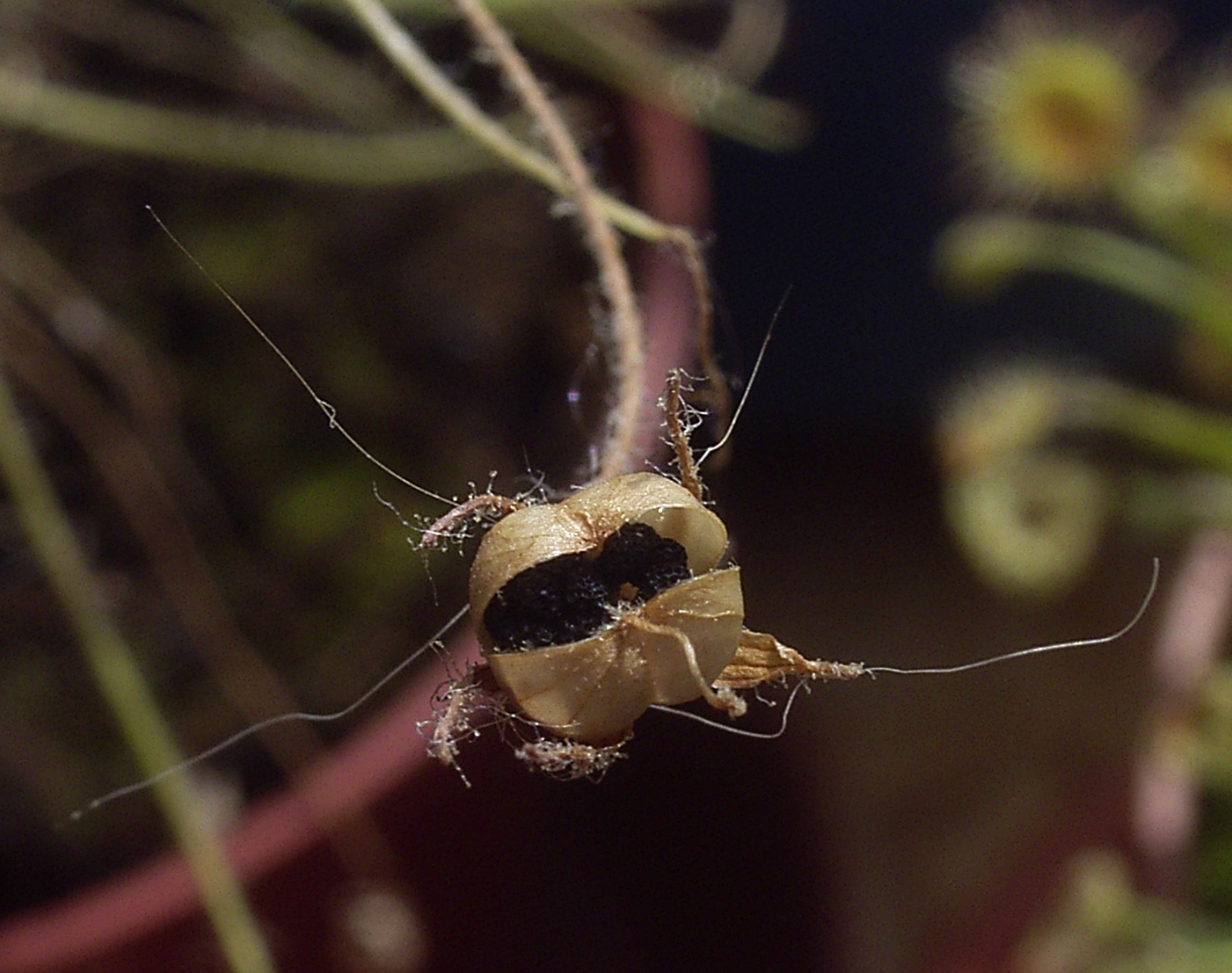 Byblis liniflora capsula Author: Denis Barthel